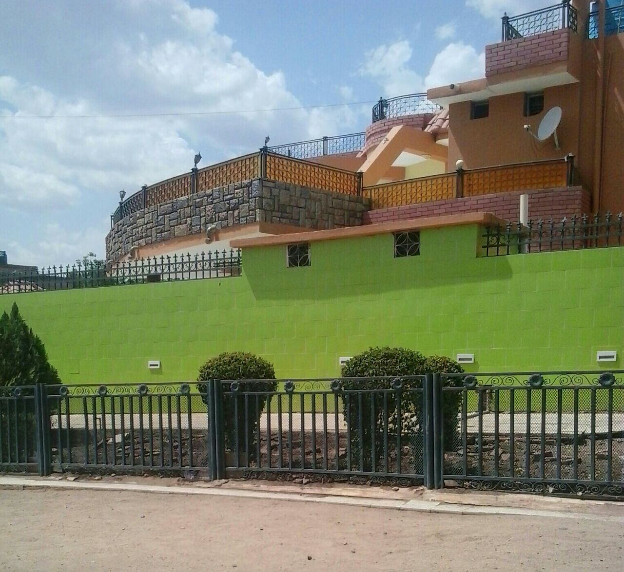 modern houses in Gedarif